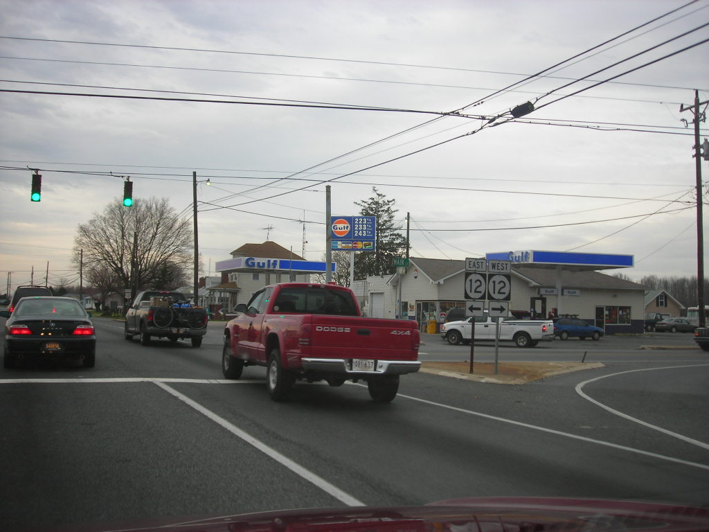 U.S. Route 13 southbound at Delaware Route 12 in Felton